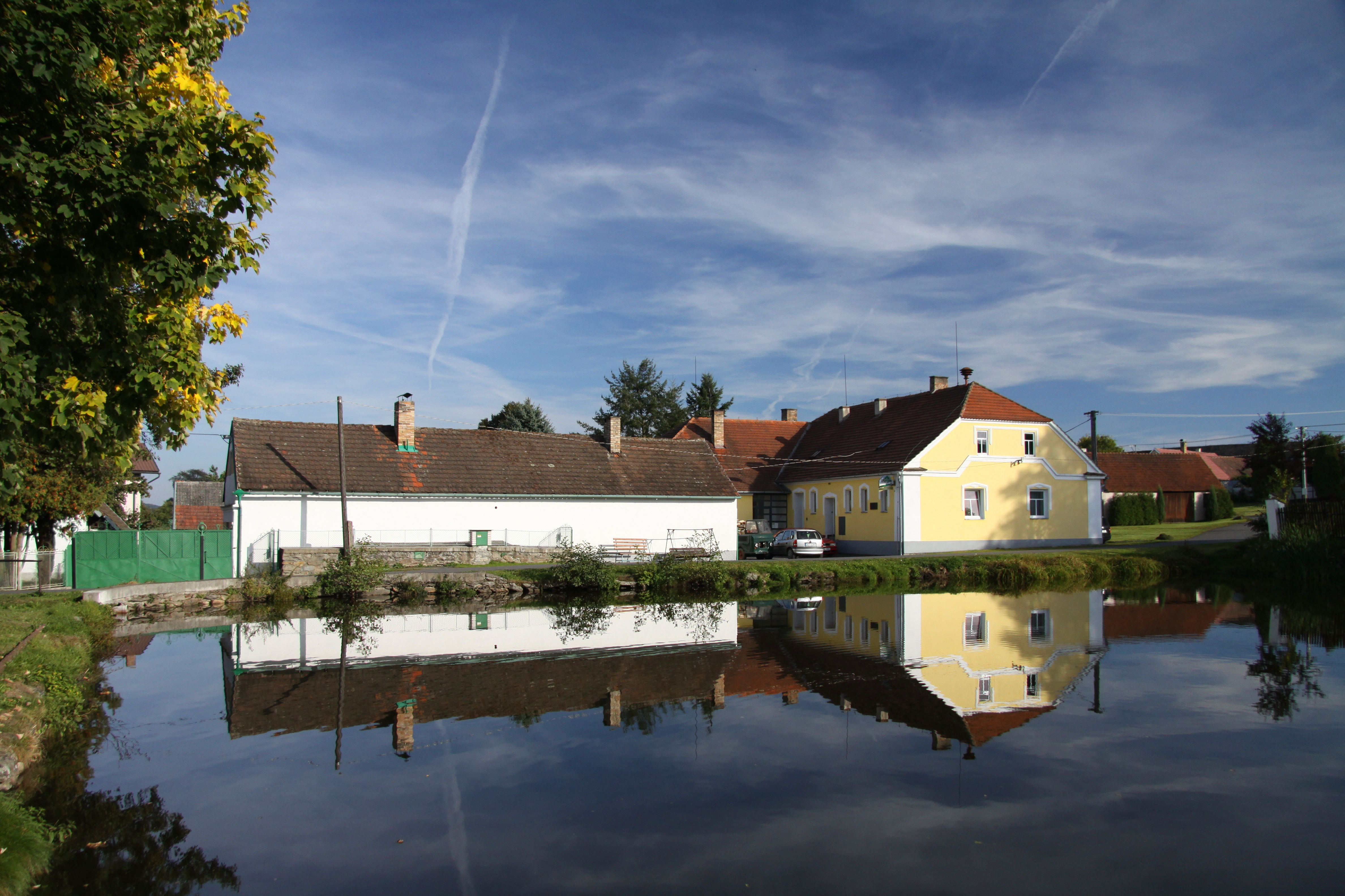 Líšnice, part of Sepekov village in Písek District, Czech Republic - Google Maps - Google Earth